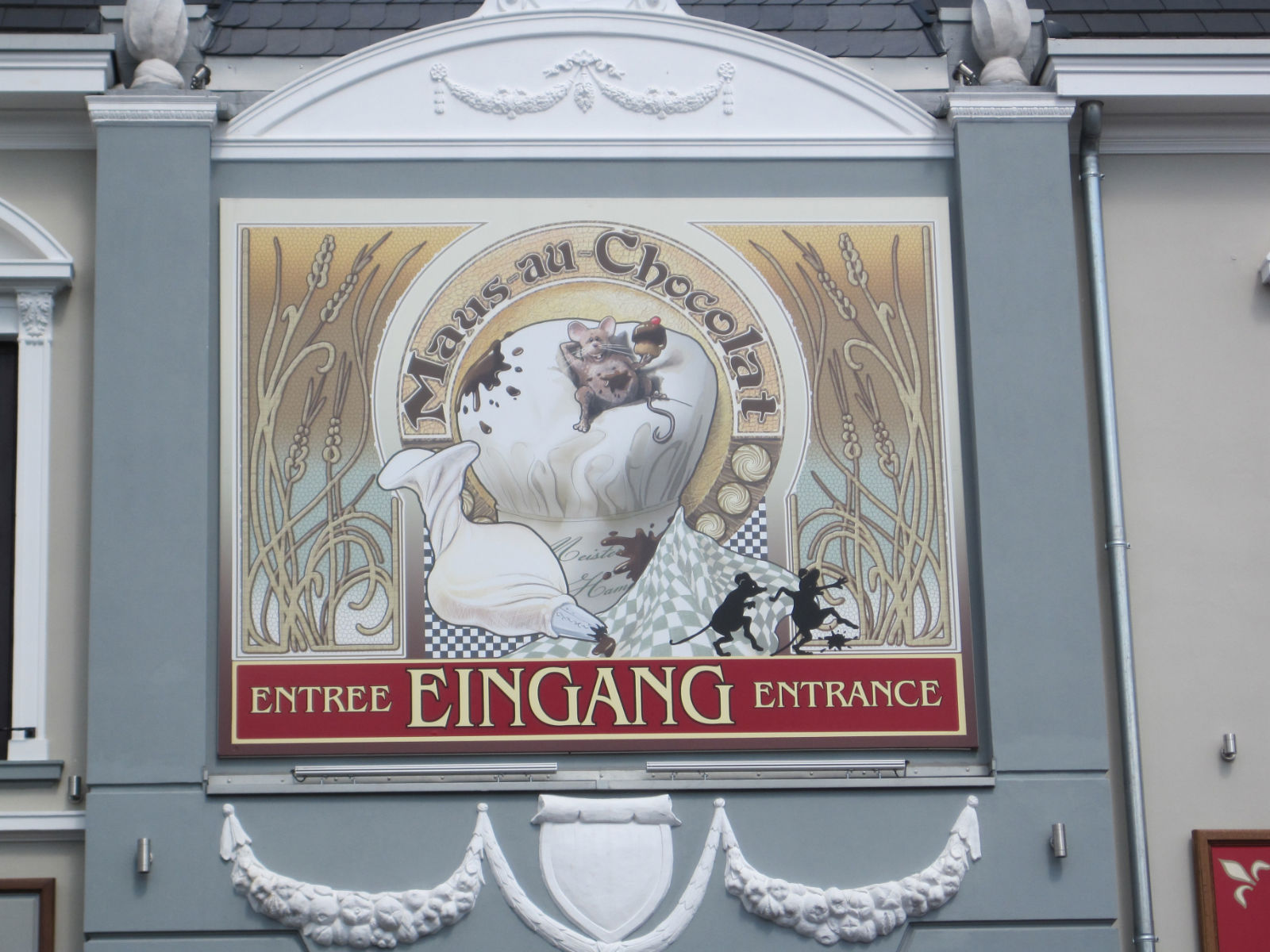 Entrance sign of Maus au Chocolat